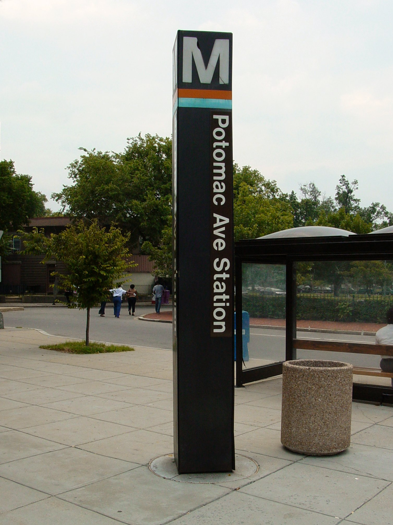 Potomac Avenue station entrance pylon